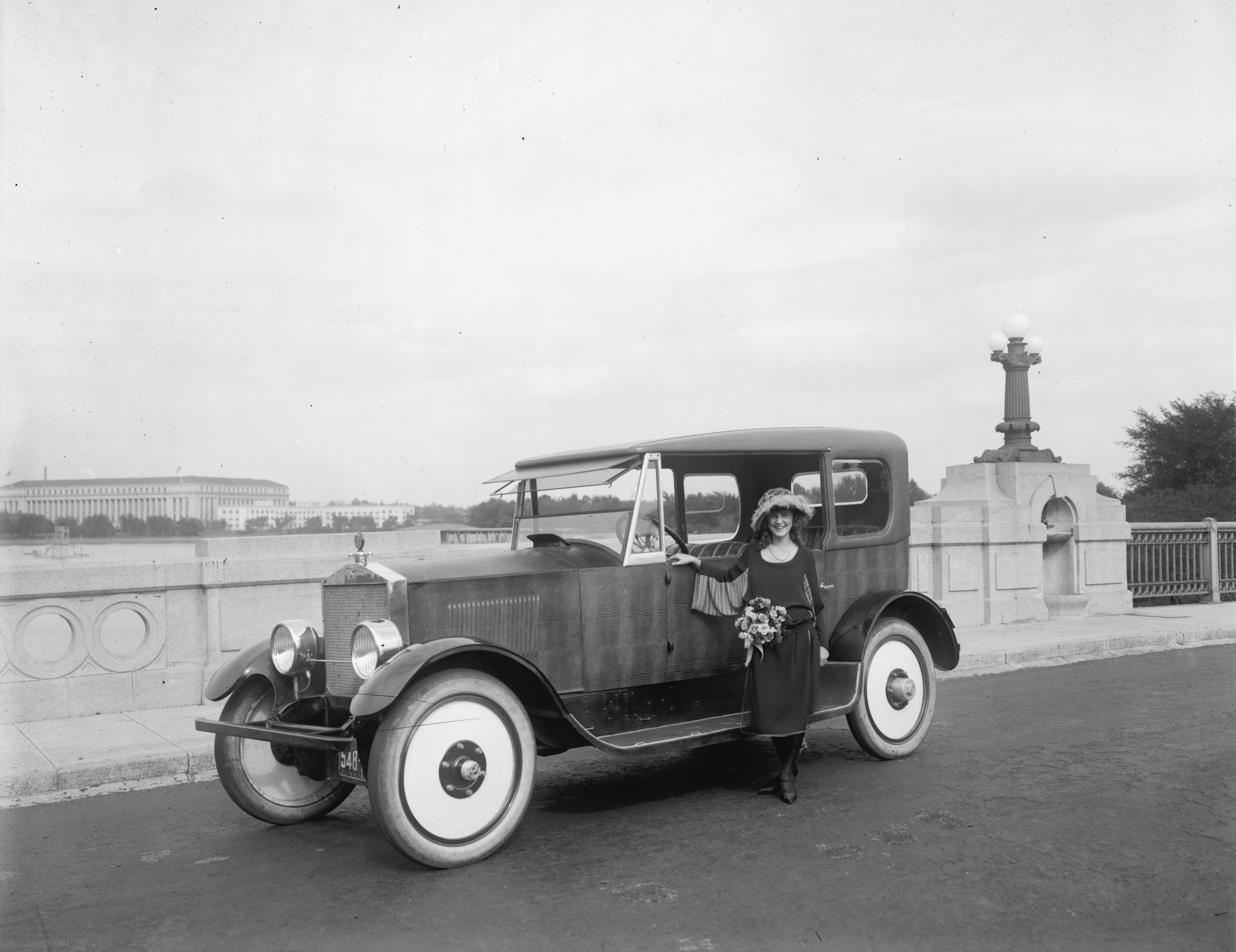 Margaret Gorman with her Birmingham Motors automobile on Washington D.C. bridge